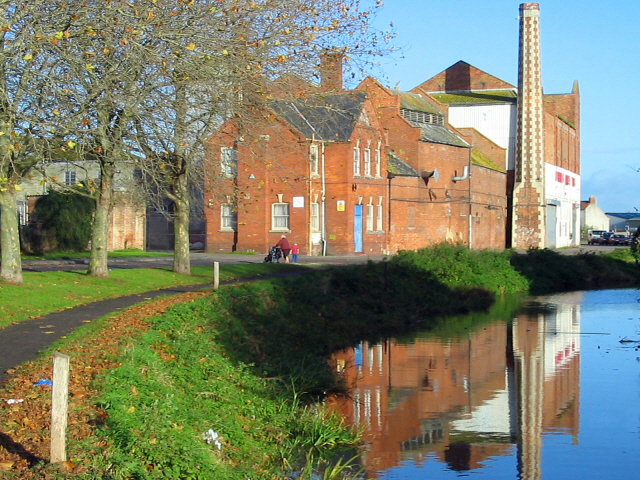 Bowerings Feed Factory The Bridgwater and Taunton Canal as it enters Bridgwater Docks. Bowerings Animal Feed factory on the left.